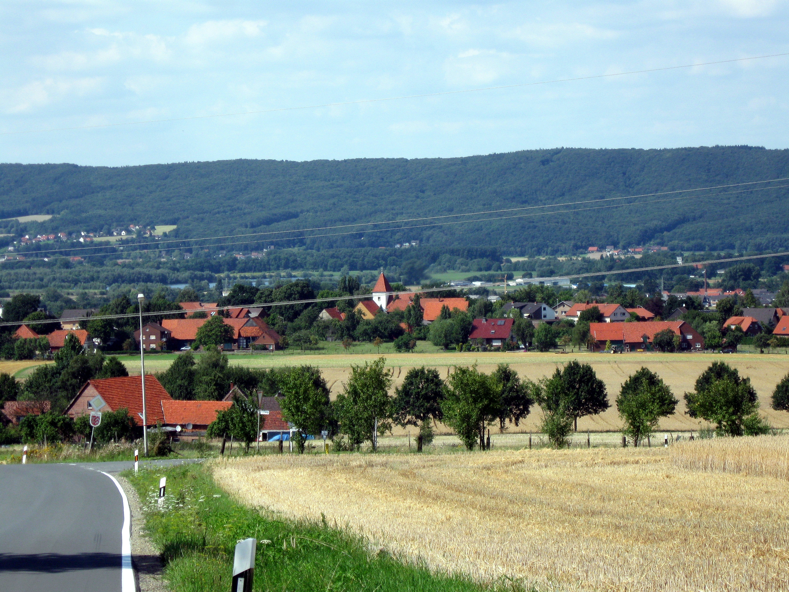 Looking north onto Holtrup with the church as a center. In the background the mountains Wiehengebirge.